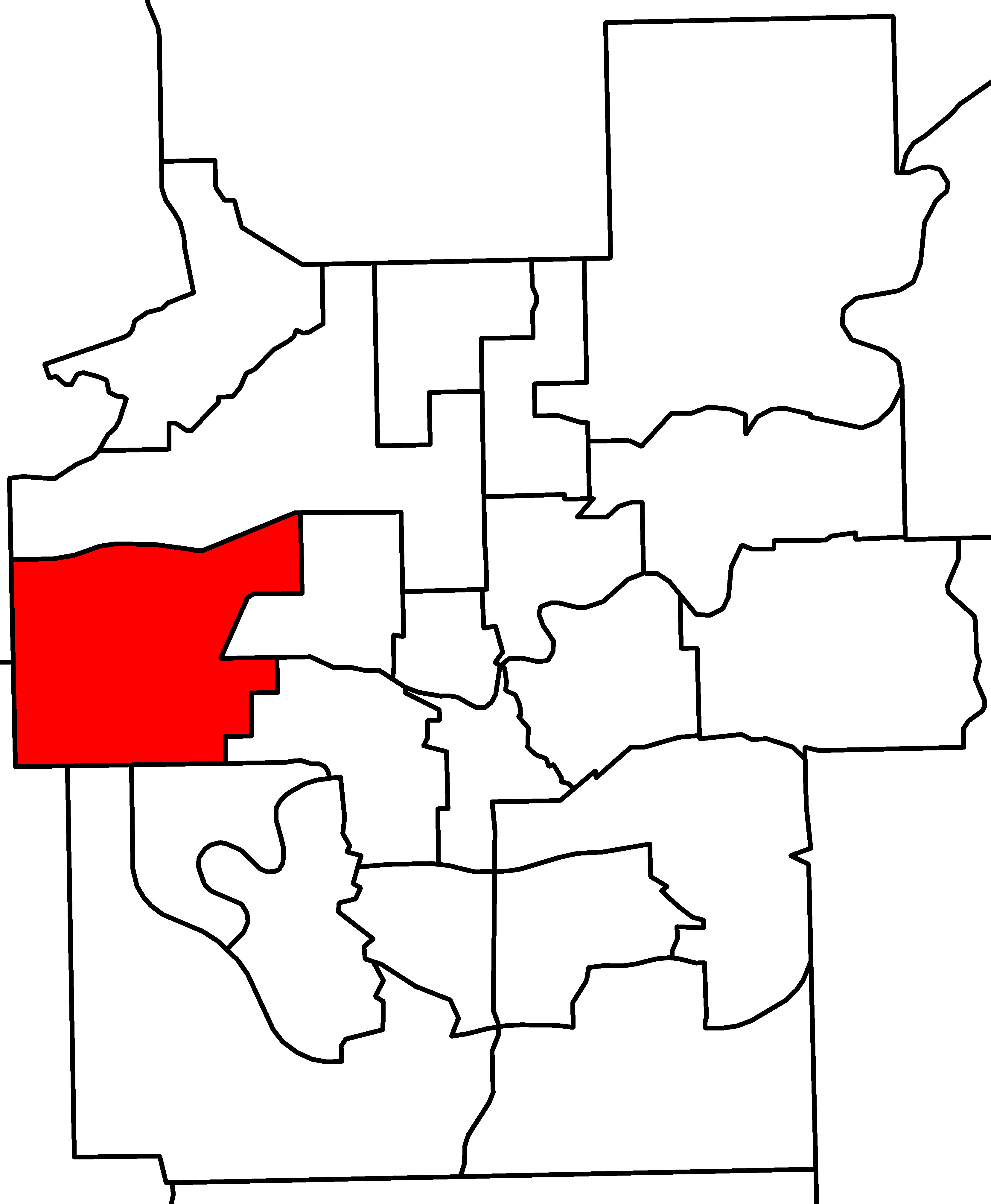 A map of Alberta provincial electoral districts, effective 2010, in the Edmonton area. Edmonton-Meadowlark is highlighted in red.